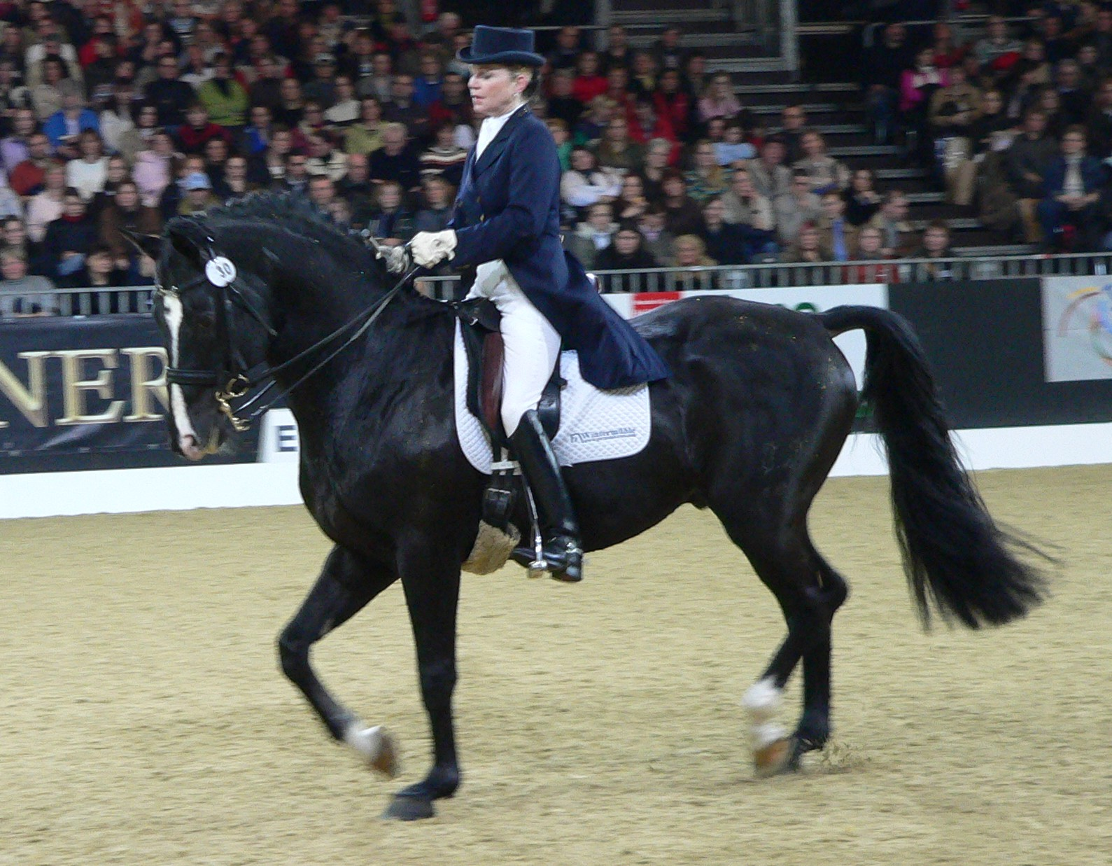 Trakehner, Stallion as presented on the german horsefair "Equitana" during the „Equitana Stallion Masters“ (Dressurkör der Klasse S für gekörte Hengste)